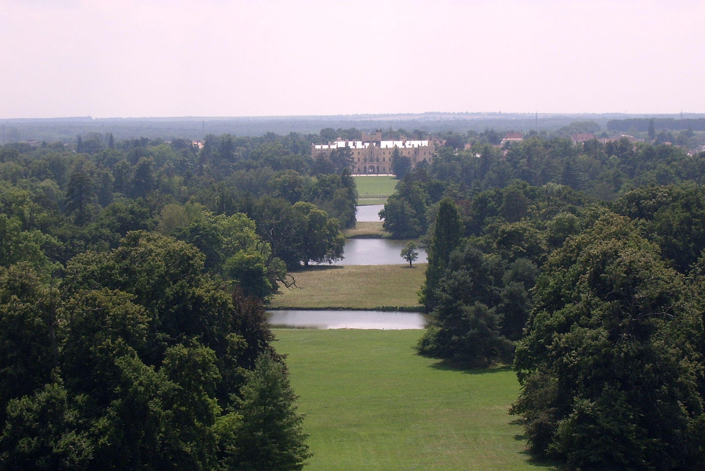 Castle in Lednice (Czech Republic)